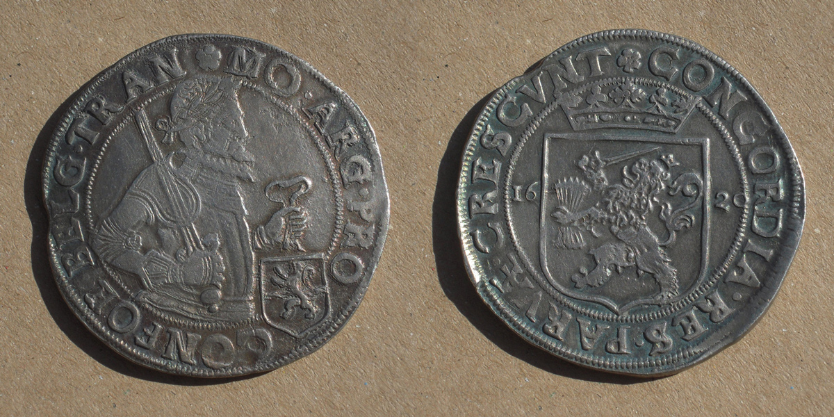 This Dutch rix-dollar is part of a private collection.